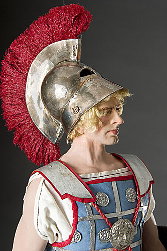 Historical Mixed Media Figure of Alexander the Great produced by artist/historian George S. Stuart and photographed by Peter d'Aprix. This image, from the George S. Stuart Gallery of Historical Figures® archive ( is provided for all uses with appropriate attribution. Any derivatives must be shared in the same manner. Contributor mharrsch is webmaster for the gallery site.